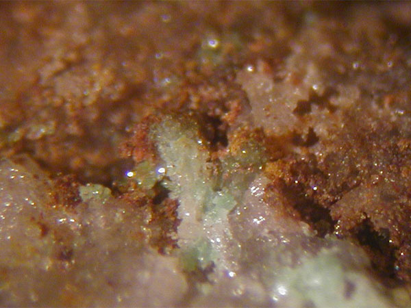 Dugganite Fundort: Tombstone, Cochise County, Arizona, USA Greenish dugganite. Picture size 1.8 mm. Collection and foto Thomas Witzke.